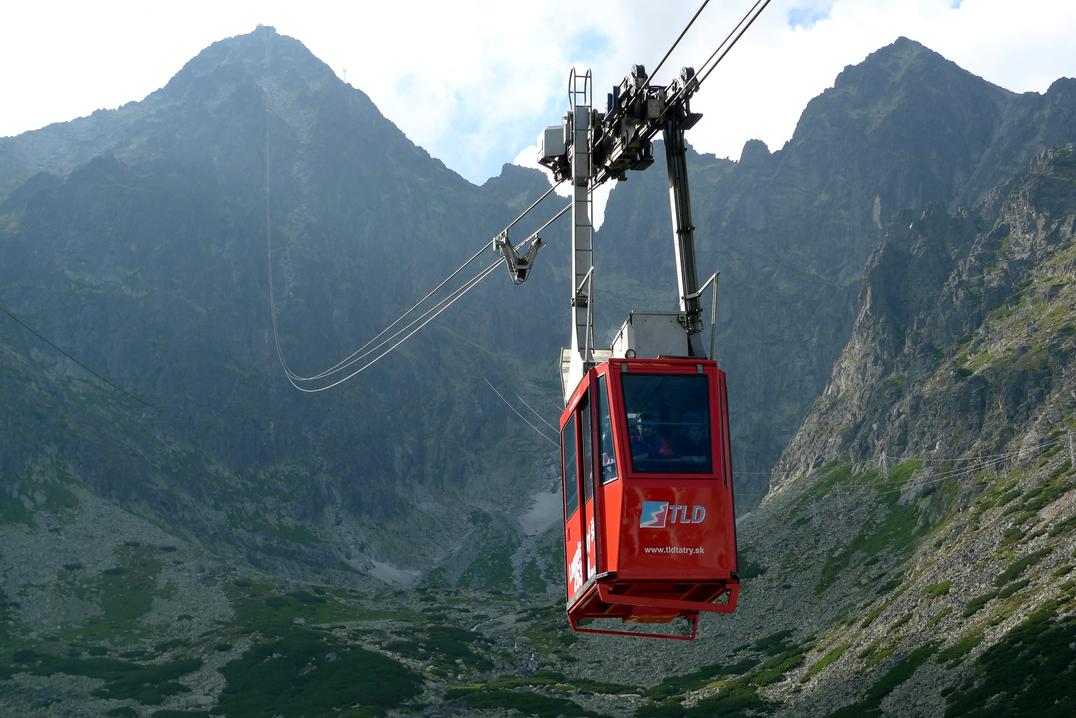 Aerial tramway Skalnaté pleso–Lomnický štít Česky: Visutá lanovka Skalnaté pleso–Lomnický štít